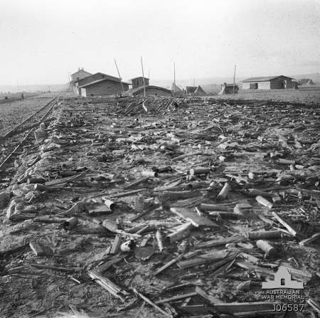 Photo of destroyed Ottoman ammunition dump at Sheria, Palestine, November 1917.